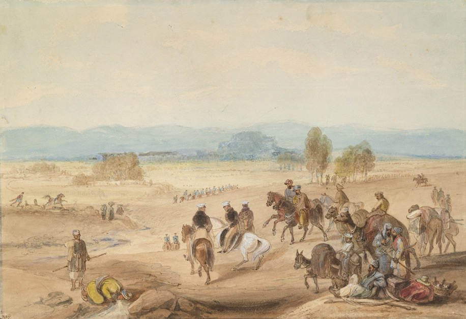 Approach to Quetta (Baluchistan); Sir John Keane and staff in middle distance